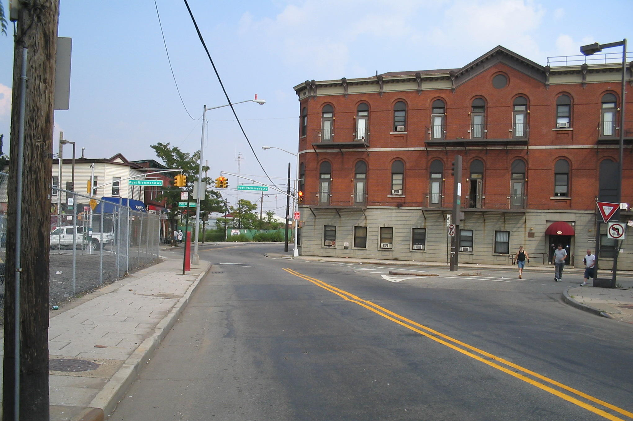 Looking east from Richmond Terrace and Ferry Street, at the corner of Richmond Terrace and Port Richmond Avenue, known in the past as Port Richmond Square. The red brick building in the photo replaced the hotel where Aaron Burr, 3rd Vice President of the United States, died. This was once a bustling center for business. Old photos and postscards reveal the presence a trolley line on Richmond Terrace (street going forward) as well as other buildings which have since been demolished, such as on the corner to the far left. The Bergen Point Ferry to Bayonne, NJ, discontinued after the Bayonne Bridge opened, used to be in the distance (on the left of Richmond Terrace). I took this photo in August 2005 with my own camera.